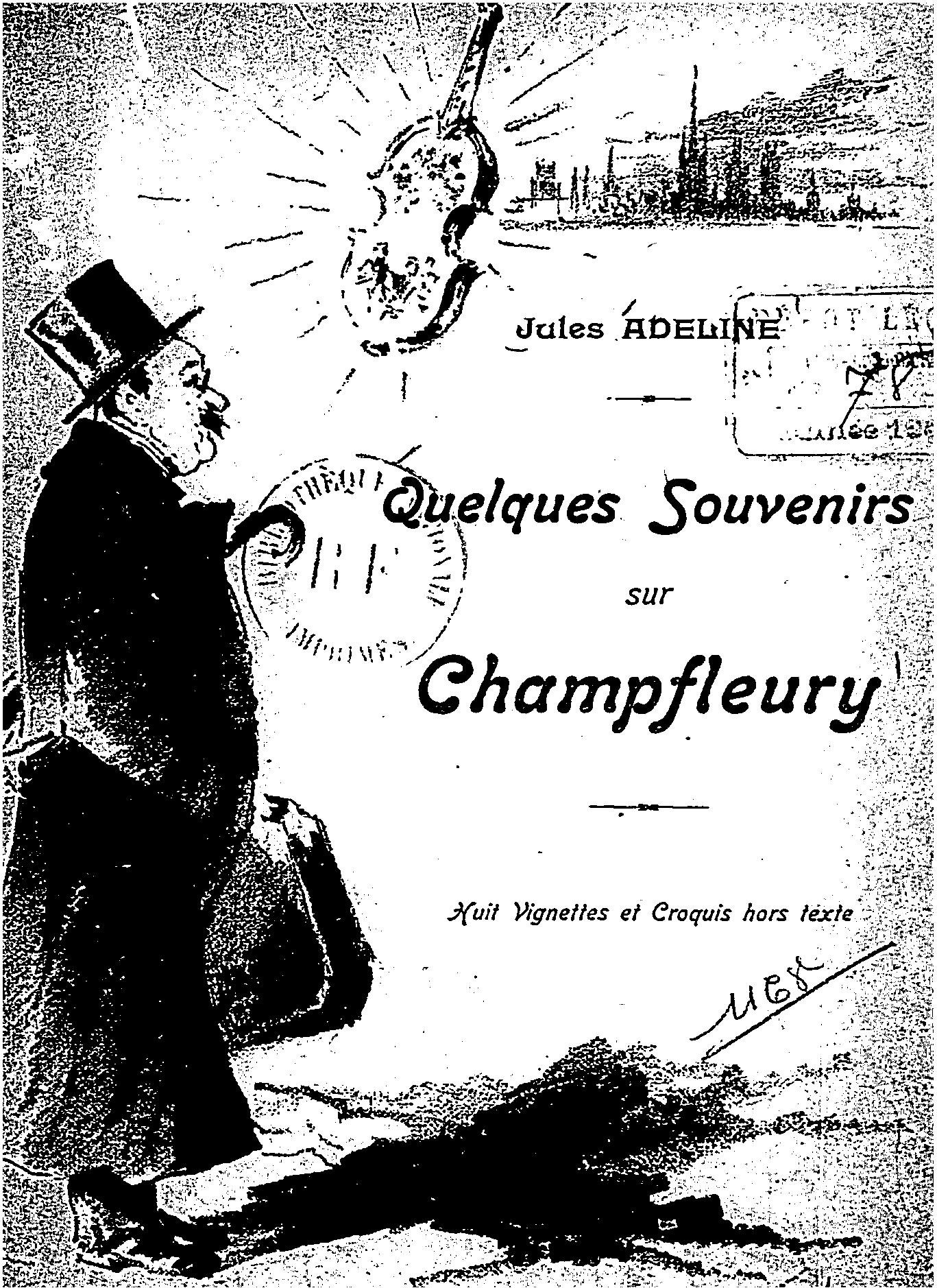 Title page of "Quelques souvenirs sur Champfleury" (1902) by French printmaker Jules Adeline (1845-1909).